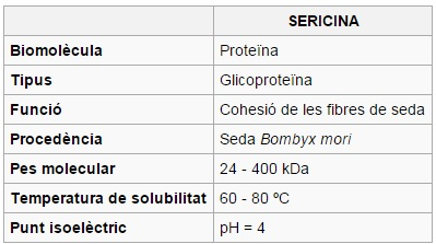 Informació general de la Sericina